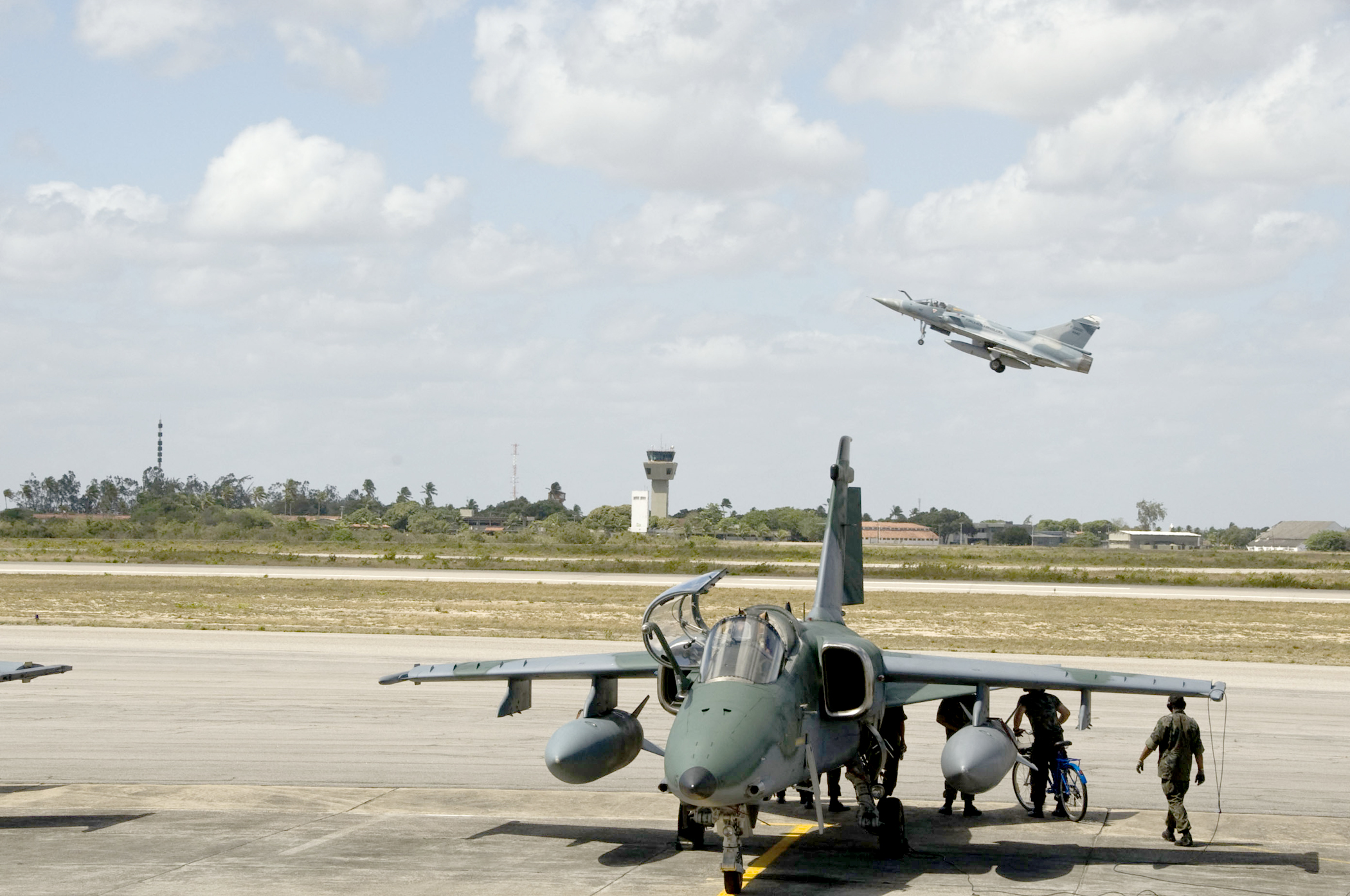 A Brazilian A-1 aircraft undergoes maintenance while a Brazilian F-2000 aircraft takes off during the CRUZEX V, or Cruzeiro do Sul (Southern Cross), exercise Nov. 10, 2010, at Natal Air Base, Brazil